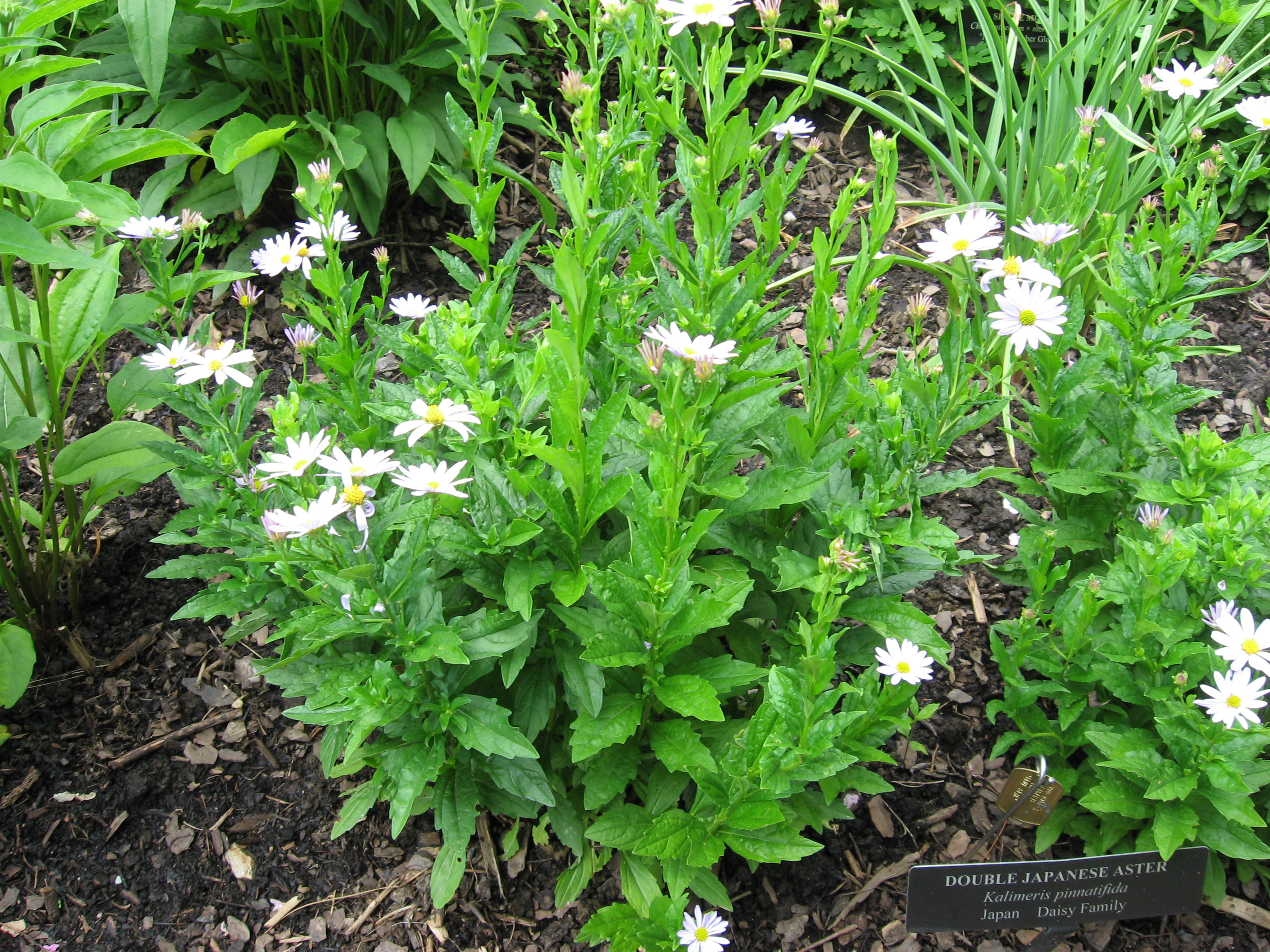 A picture of Kalimeris pinnatifida.